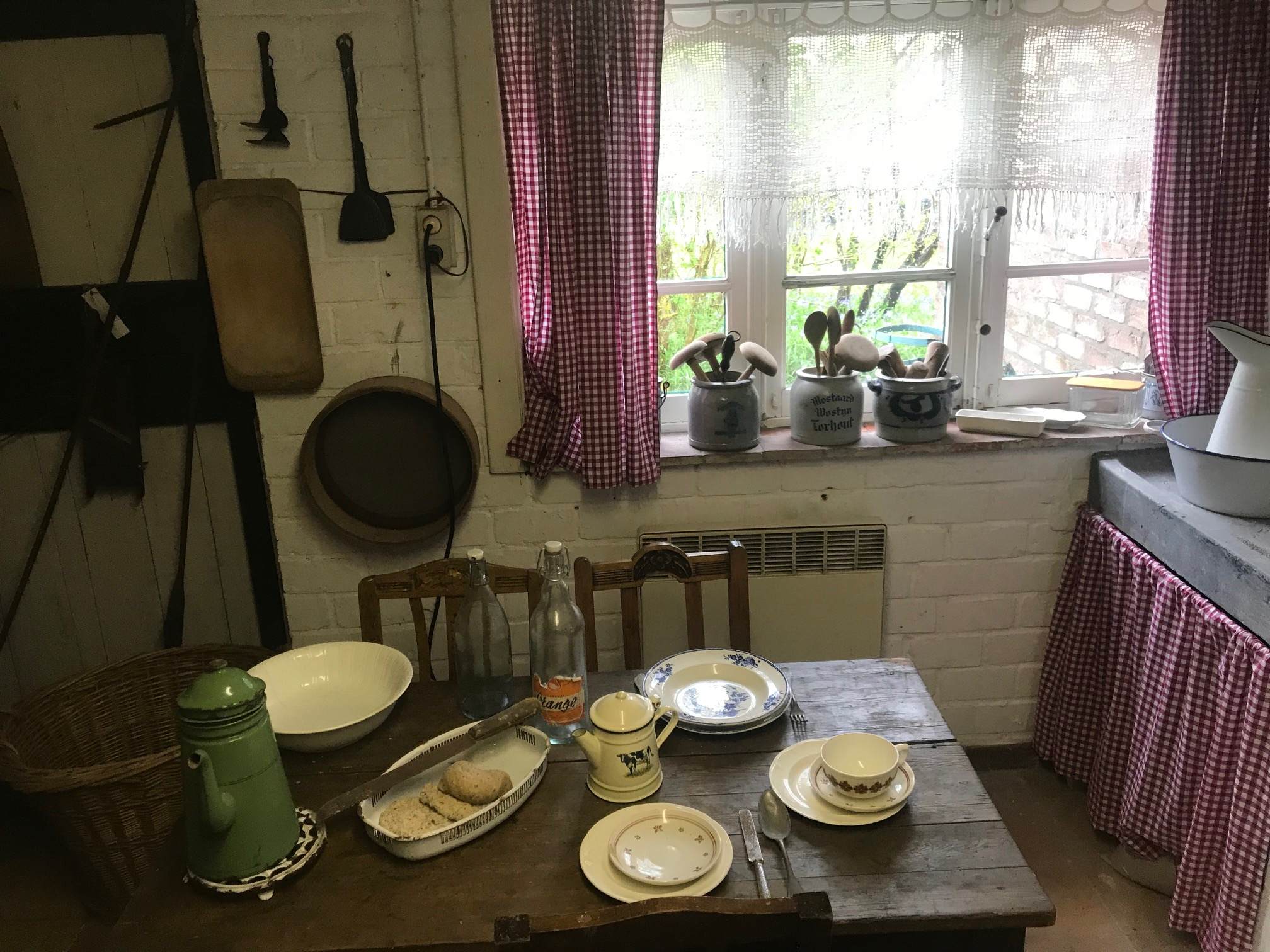 Bakhuis Turkeyenhof Bredene